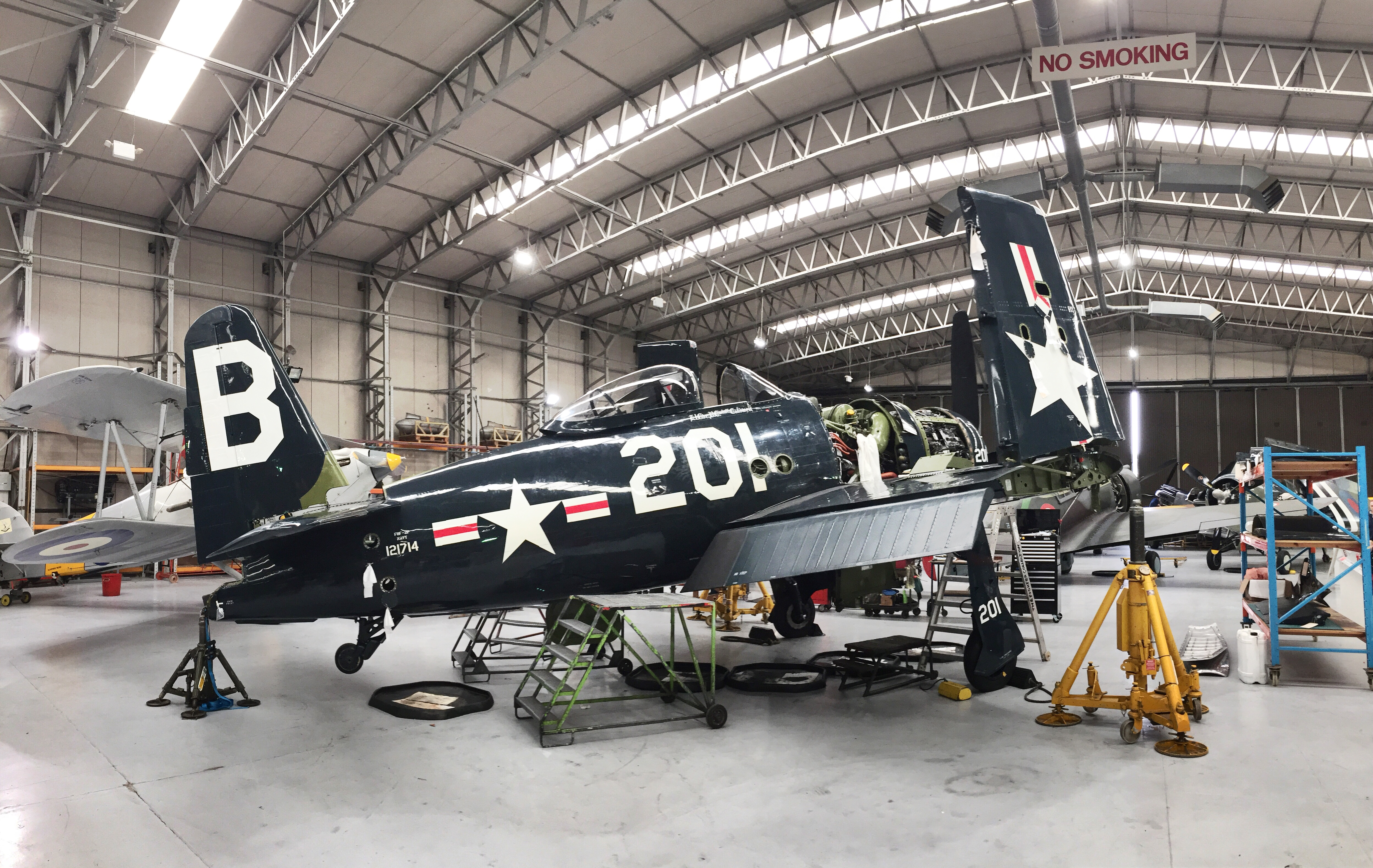 Grumman F6 Bearcat. N's favourite.